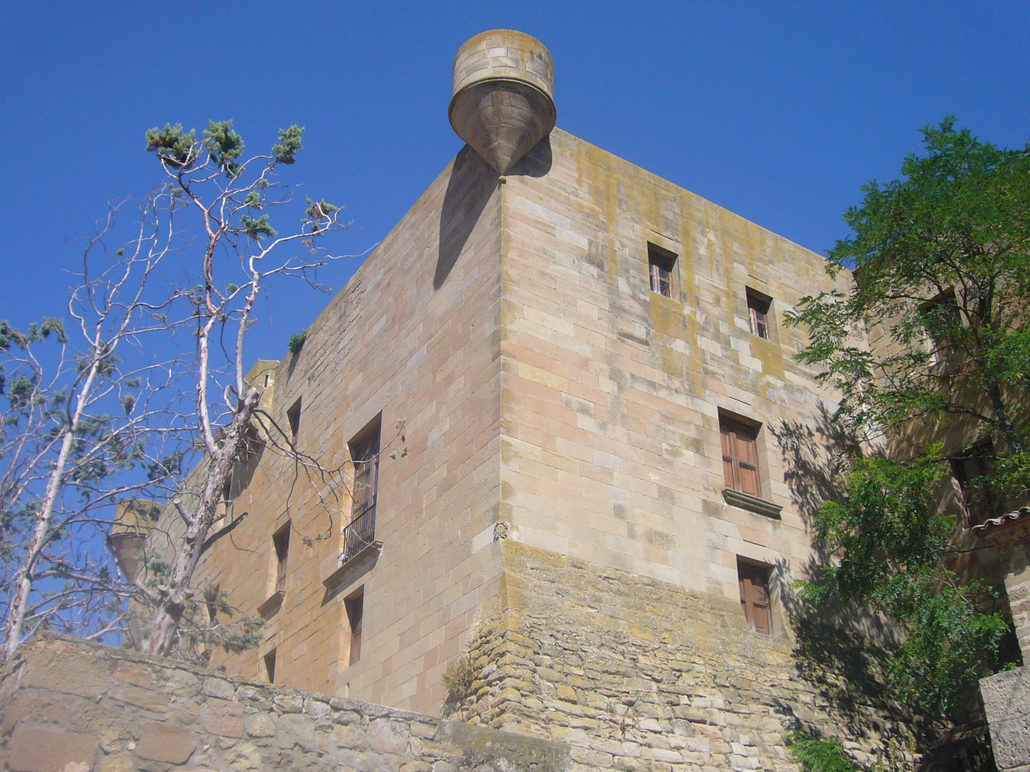 Montclar d'Urgell castle - South East